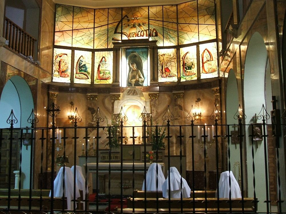 Iglesia del Convento de las Esclavas del Santísimo Sacramento (Cuenca, España)